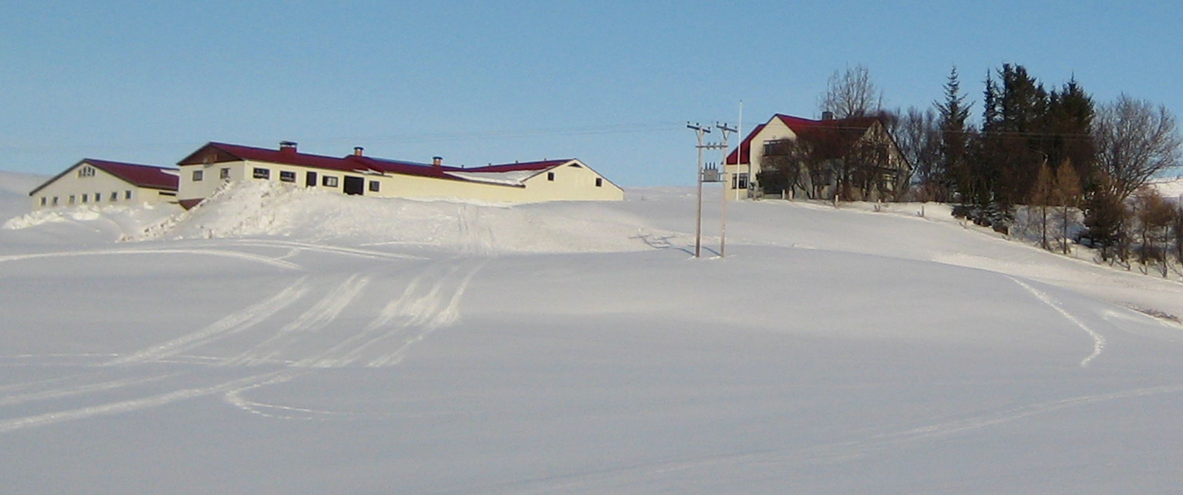 The farm Sakka in Svarfadardalur, N-Iceland